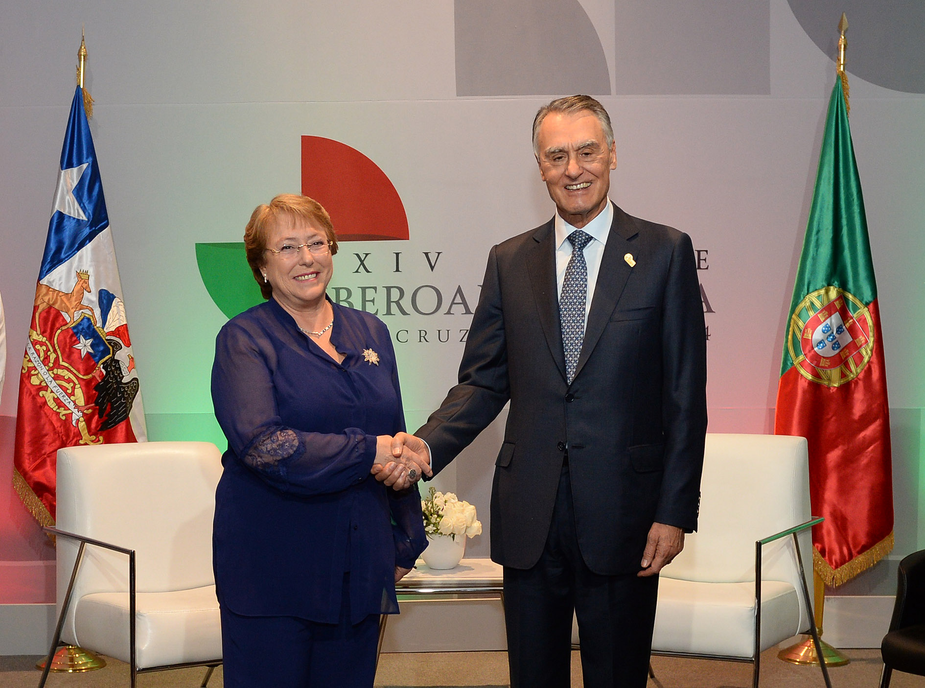 Gobierno de Chile